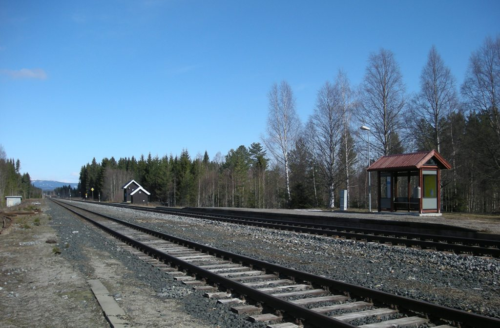 Rudstad station on the Røros line